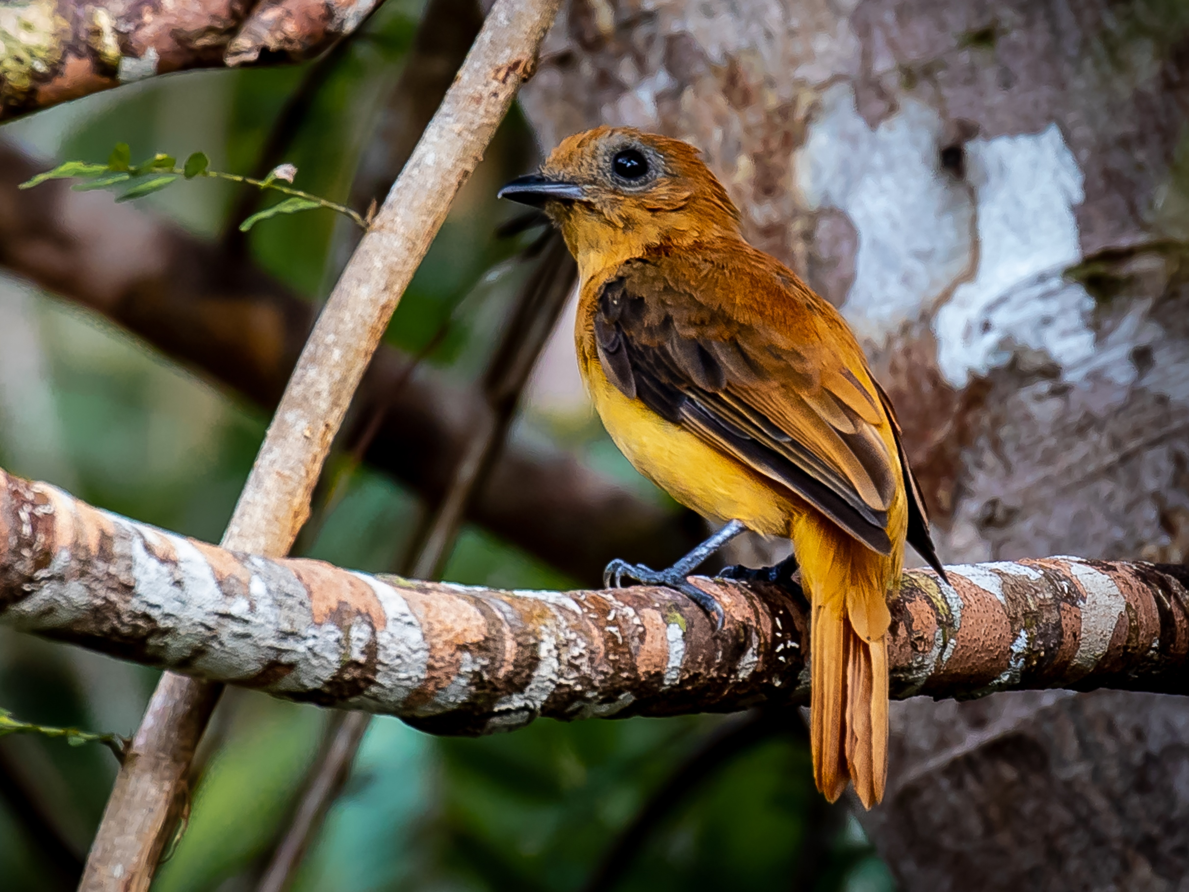 Greater schiffornis; Anavilhanas islands, Novo Airão, Amazonas, Brazil